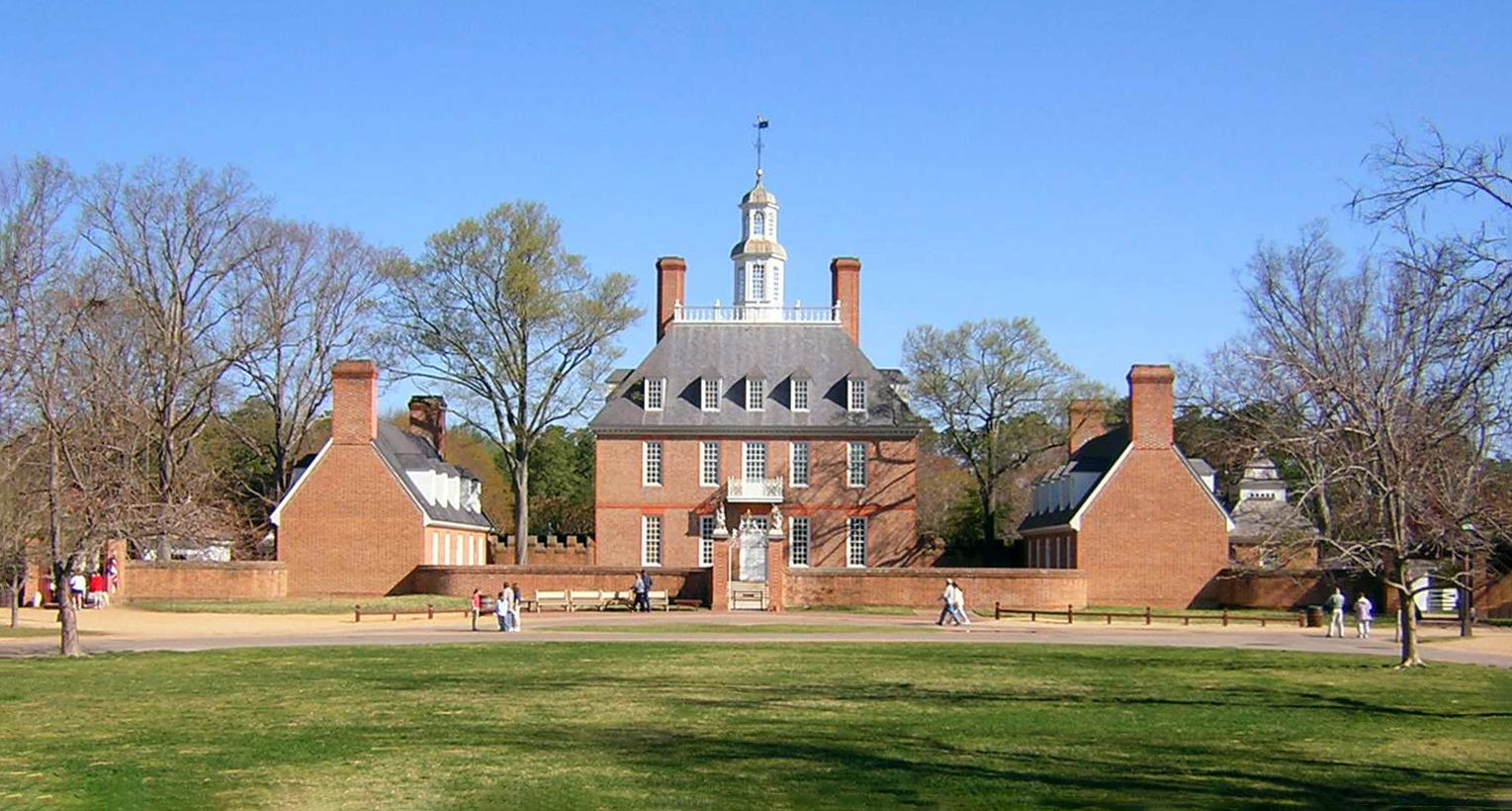 Front side of theWikipedia:Governor's Palace at Wikipedia:Colonial Williamsburg.